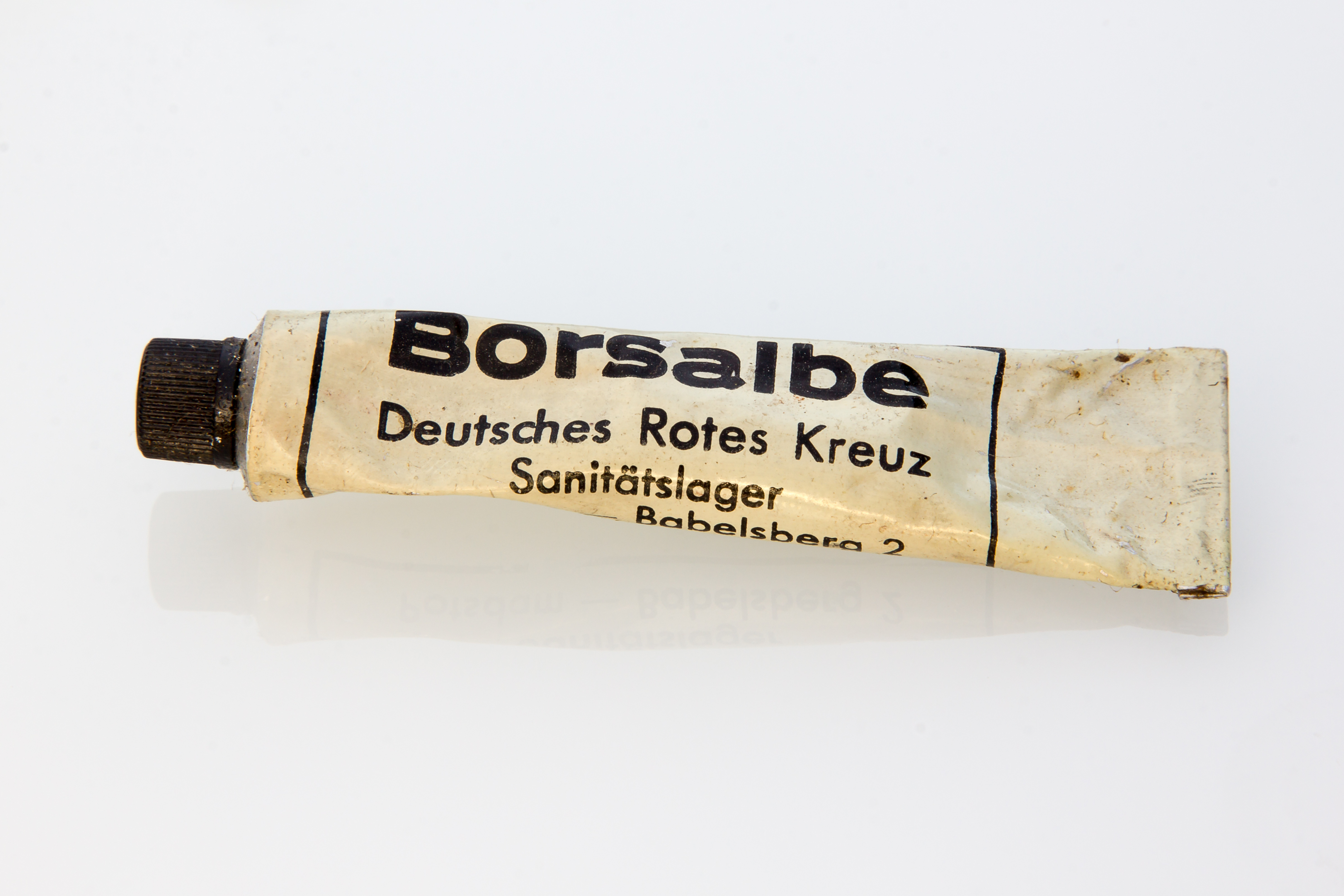 Boric from a Red Cross helper pocket of the 1930s